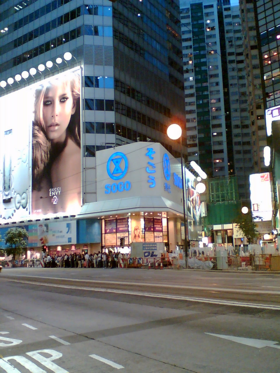 Photo of Sogo Department Store at Causeway Bay